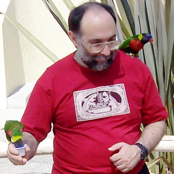 Arthur Rubin at the Aquarium of the Pacific edit of Image:Arthur Rubin self.jpg